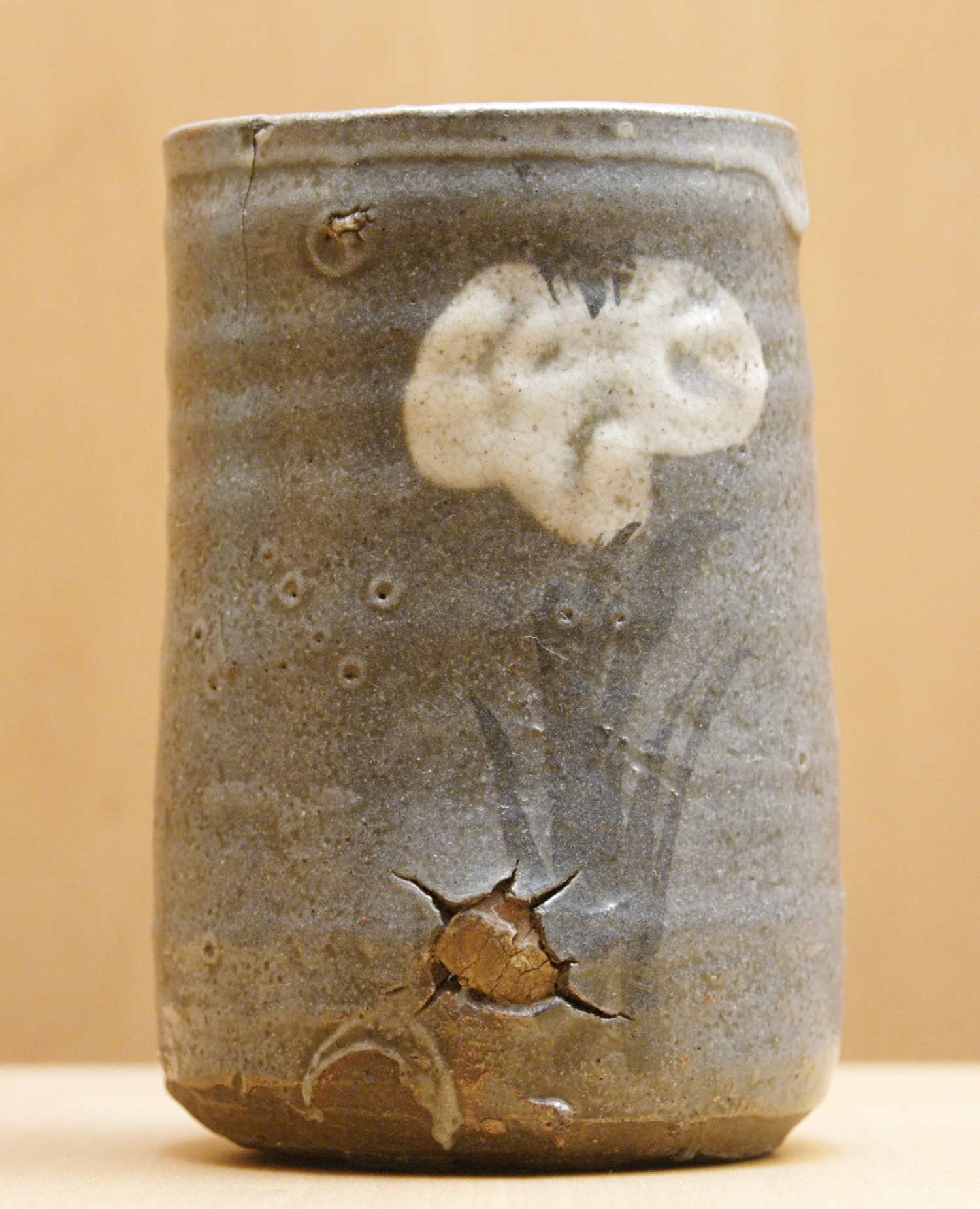 Karatsu chawan (tea bowl). Stoneware, Japan, 16th–17th centuries.